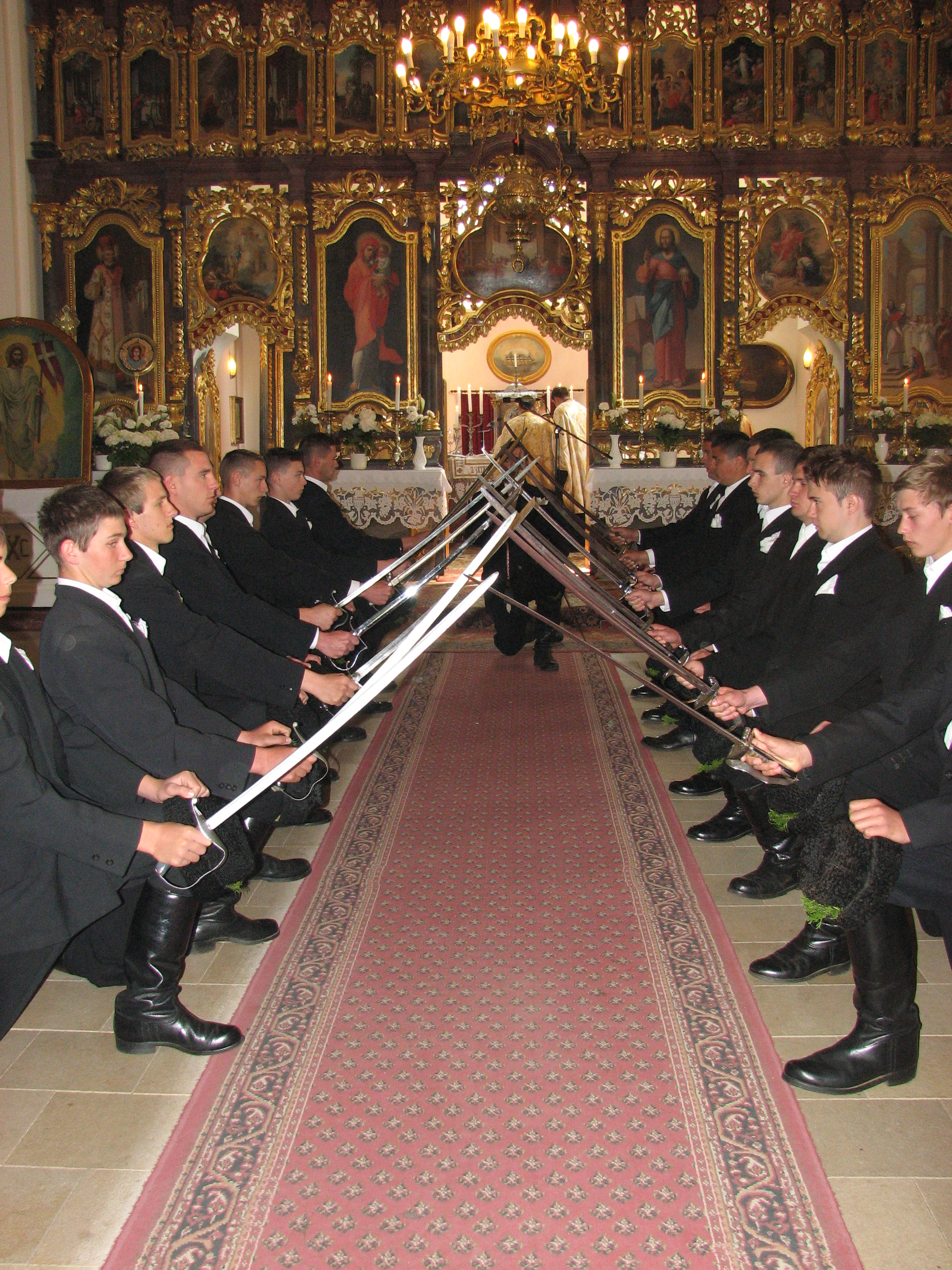 The photo depicts the Soldiers of Christ, a traditional group of young men who guard and serve during the Easter ceremonies in the Eastern rite churches of Hungary. The picture was taken in the Greek Catholic Cathedral of Hajdúdorog, Hungary.